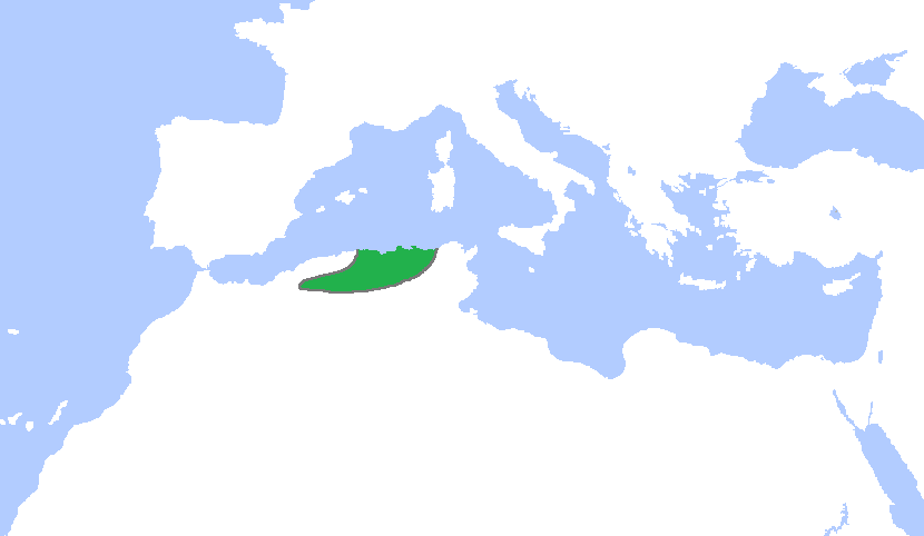 Locator map of the Hammadid dynasty/Hammadite Kingdom, c. 1100. (Partially based on Euratlas map of Europe, 1100.)